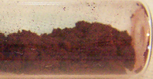 Phosphorus sample.